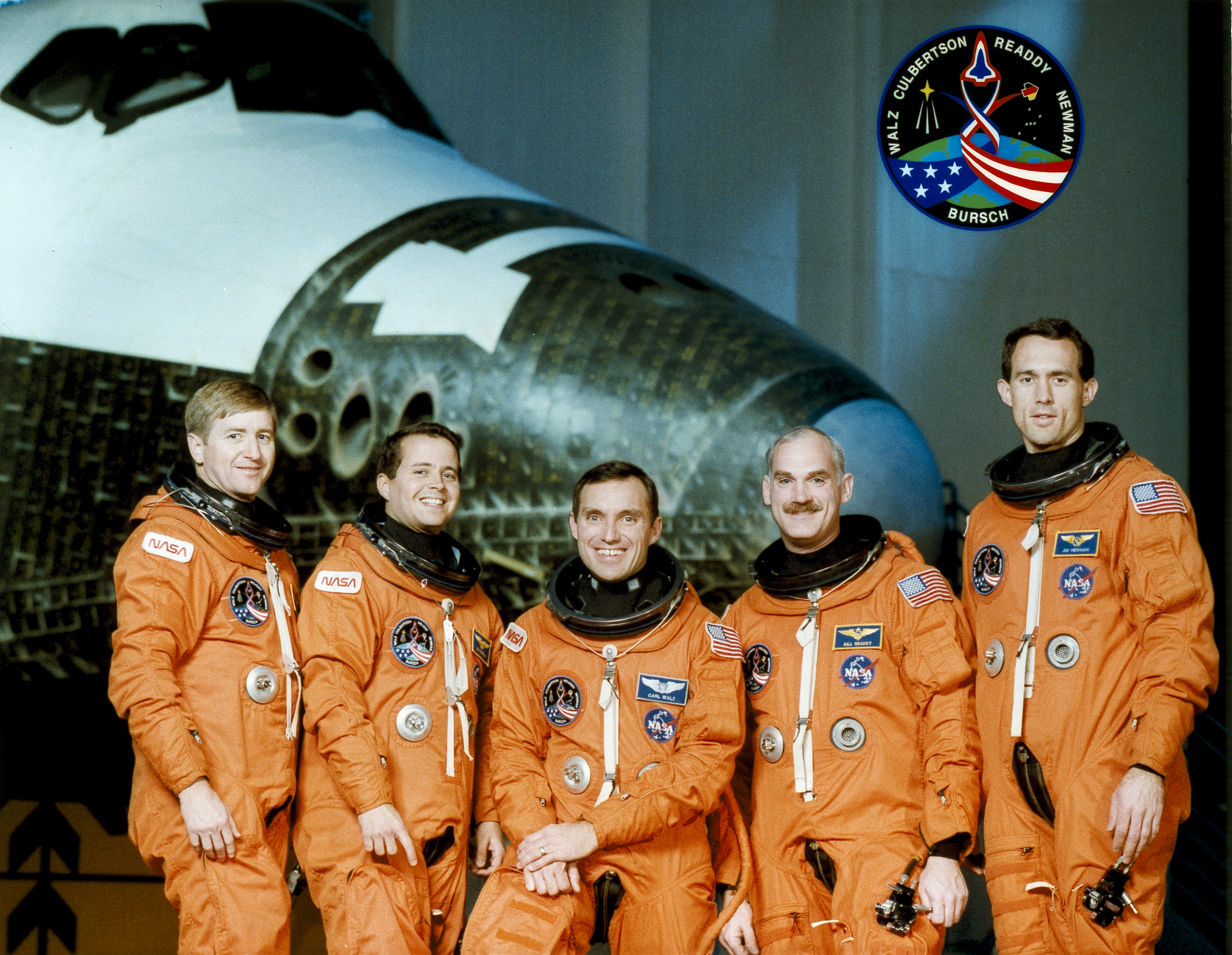 The STS-51 crew portrait features (left to right): Frank L. Culbertson, commander; Daniel W. Bursch, mission specialist; Carl E. Walz, mission specialist; William F. Readdy, pilot; and James H. Newman, mission specialist. The crew of five launched aboard the Space Shuttle Discovery on September 12, 1993 at 7:45:00 am (EDT). Two primary payloads included the Advanced Communications Technology Satellite (ACTS), and the Orbiting and Retrievable Far and Extreme Ultraviolet Spectrograph Shuttle Pallet Satellite (OERFEUS-SPAS).